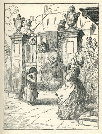 Illustration to Chapter 1 of Vanity Fair by William Makepeace Thackeray